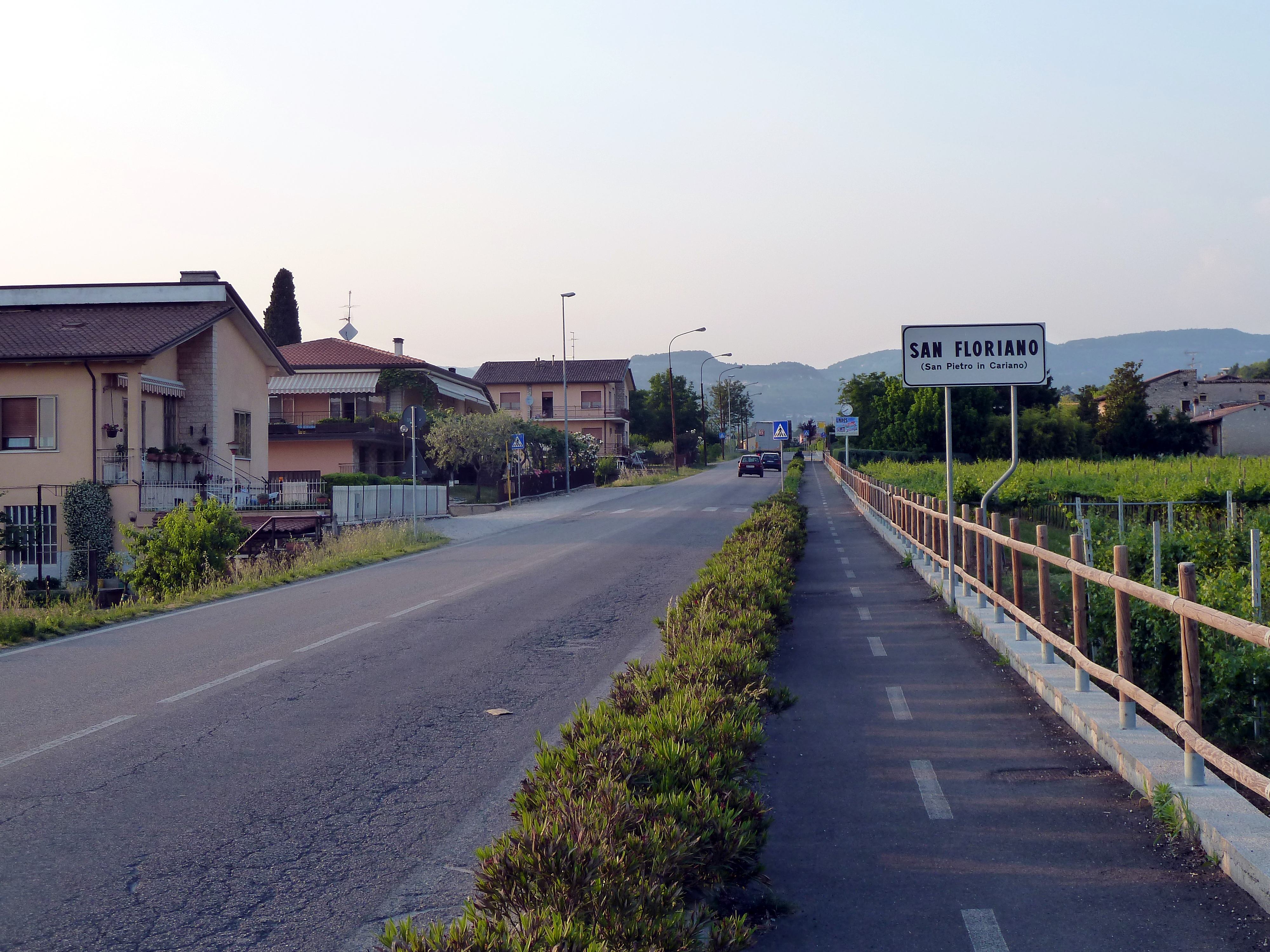 San Pietro in Cariano, Province of Verona, Italy